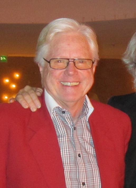 Håkan SternerPlace: Grev Turegatan 30, Stockholm, Sweden